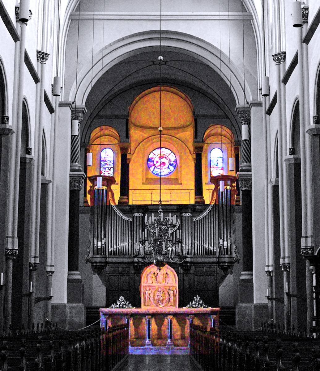 View towards the west of the interior of the Basilica of Saint Servatius in Maastricht, the Netherlands. The coloured parts indicate the correspondance between the Westwork altar and the architecture of the Westwork. This is a cropped and edited version of a photograph uploaded by Richard Broekhuijzen on 19 June 2014. The alterations are by Kleon3.